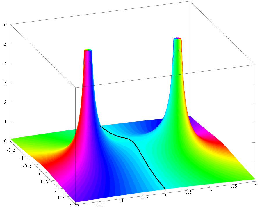 Complex plot of the function f=1/(1+z^2) with elevation showing the modulus and coloring showing the argument: cyan=0, blue=π/3, violet=2π/3, red=π, yellow=4π/3, green=5π/3.